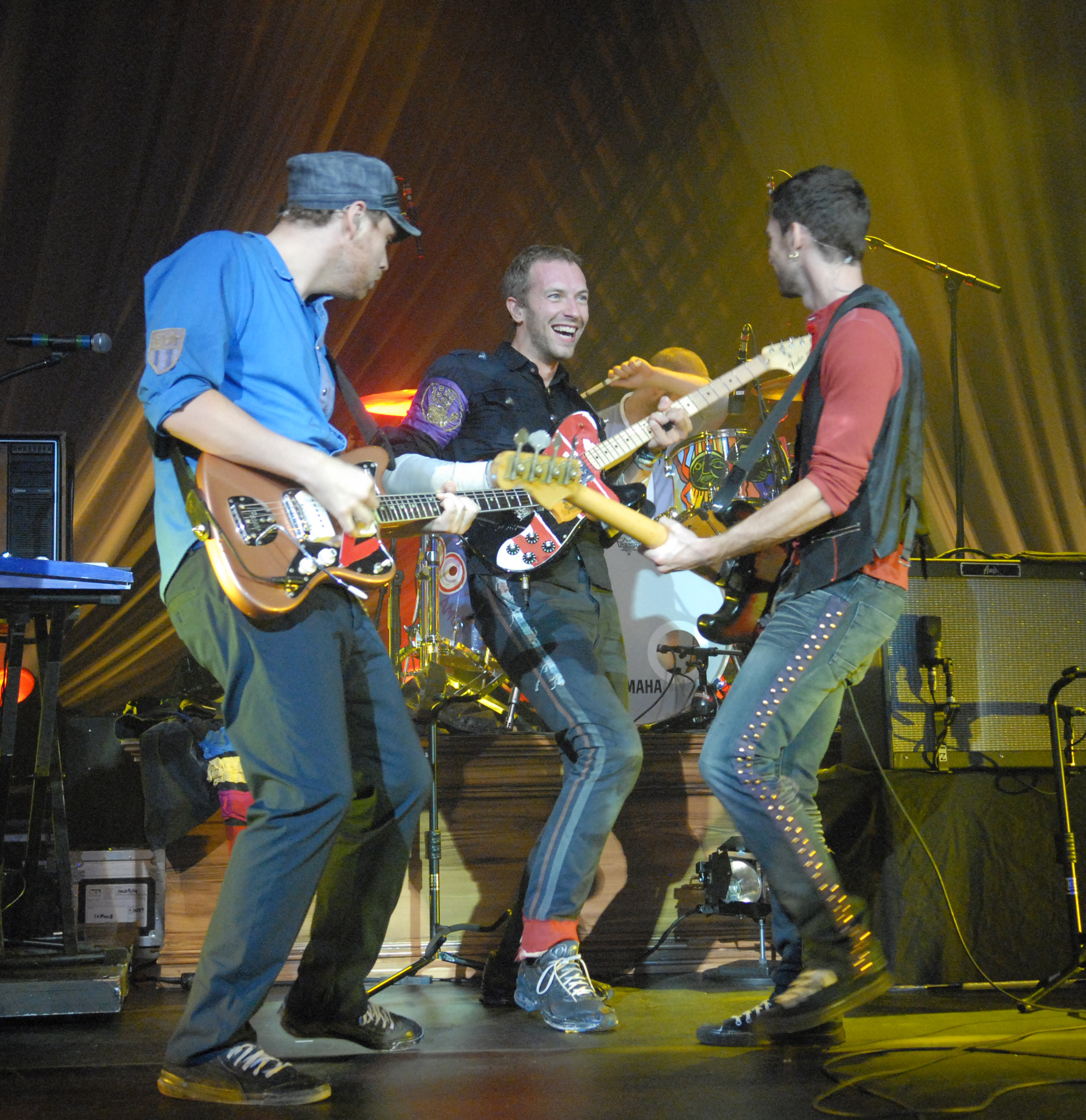 Coldplay performs for Nissan Live Sets on Yahoo! Music